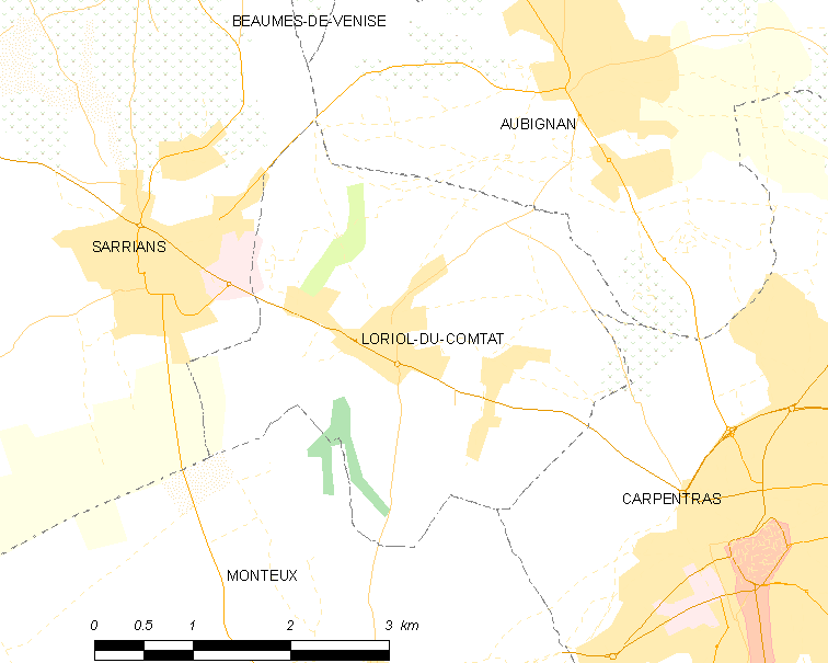 Map of French municipality Loriol-du-Comtat